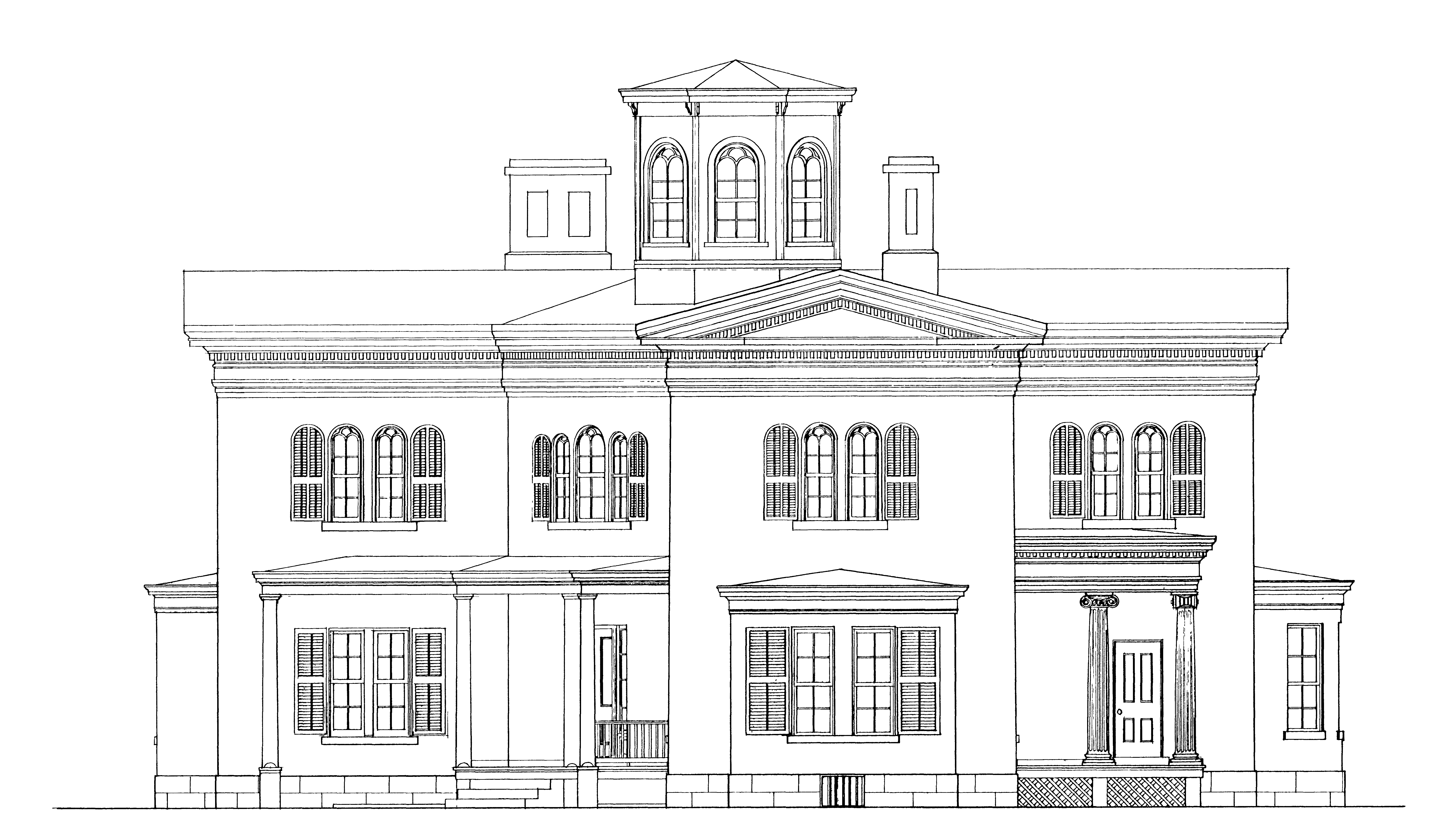 Northeast Elevation, Cooleemee Plantation, U.S. Route 64, Mocksville, Davie County, NC